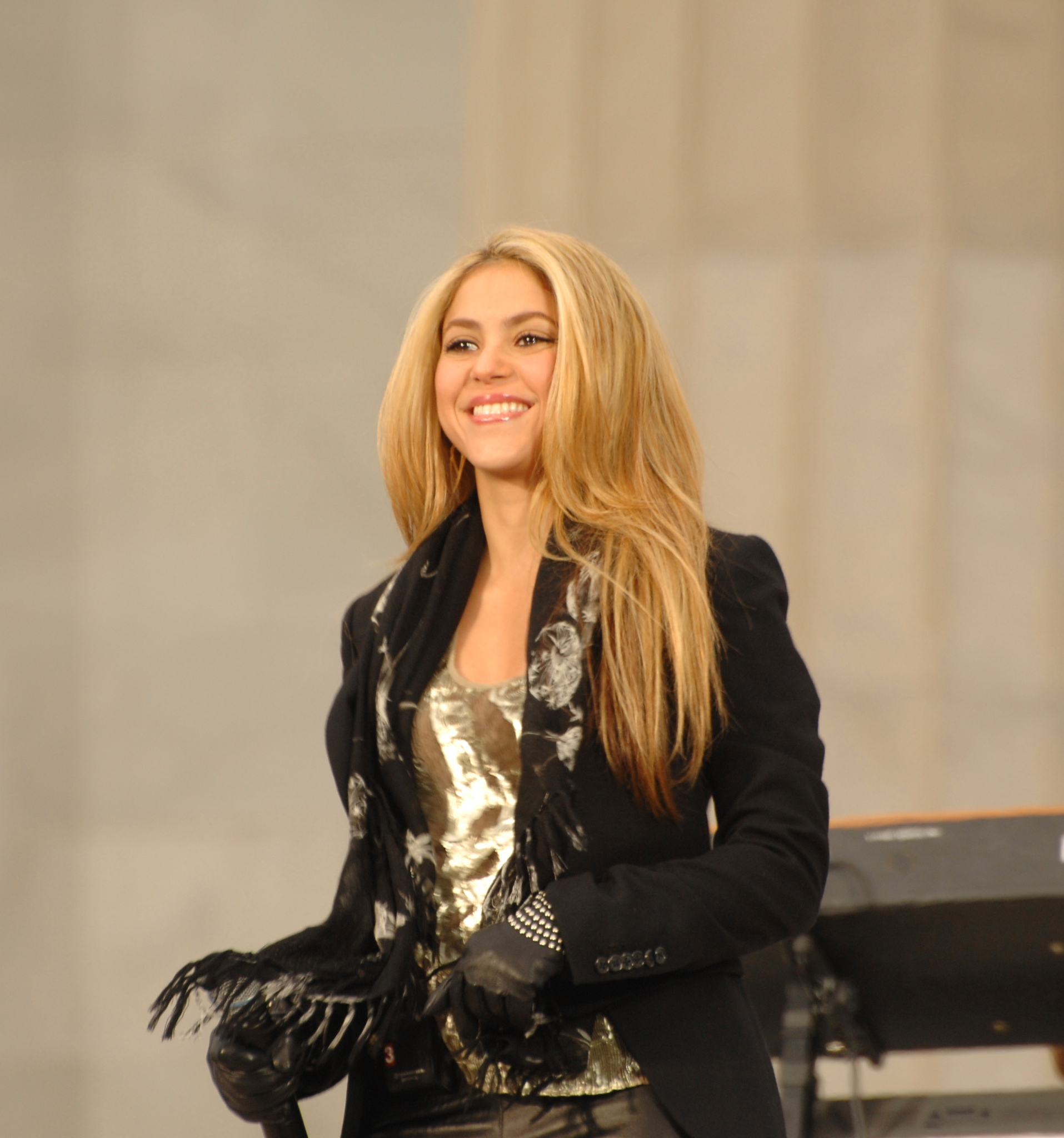 Pop singer Shakira at the Lincoln Memorial on the National Mall in Washington, D.C., Jan. 18, 2009, during the inaugural opening ceremonies.